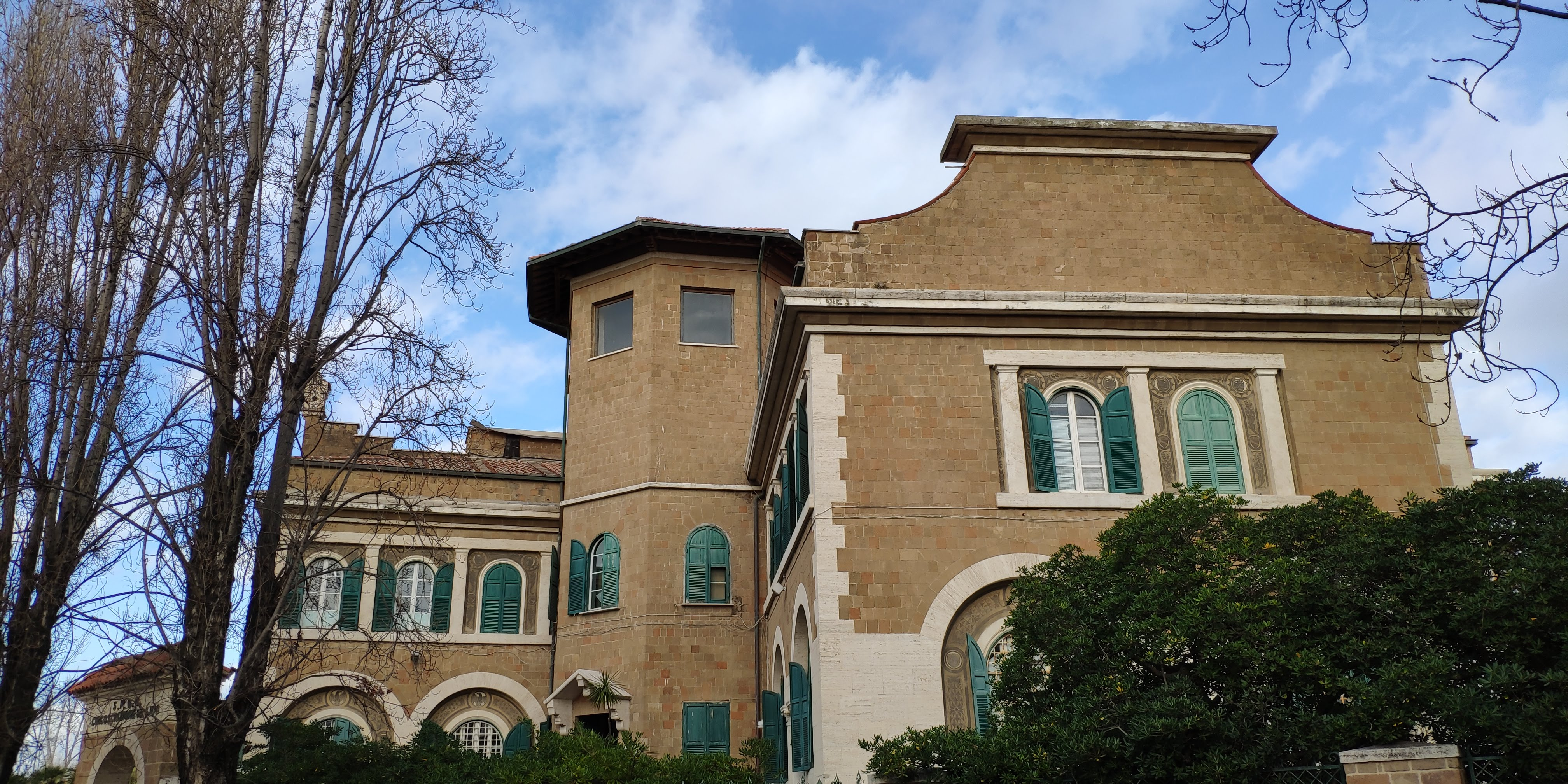 Palazzo del Governatorato in Ostia from via Claudio